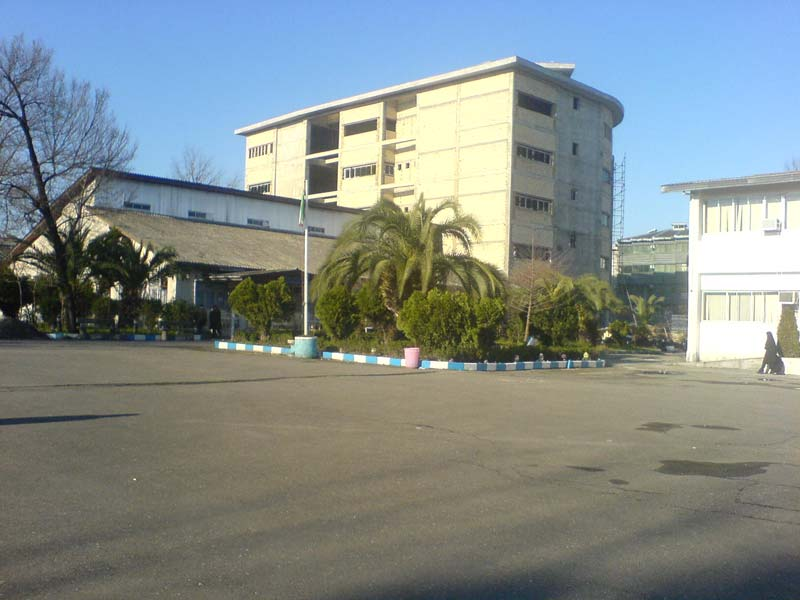 Guilan university-Facuilty of sciences